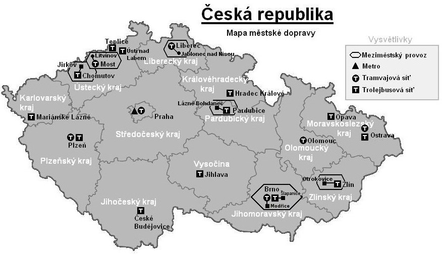 Map of public transport in Czech cities (inspired by Image:OePNVSystemeDeutschlandJanuar2003.jpg